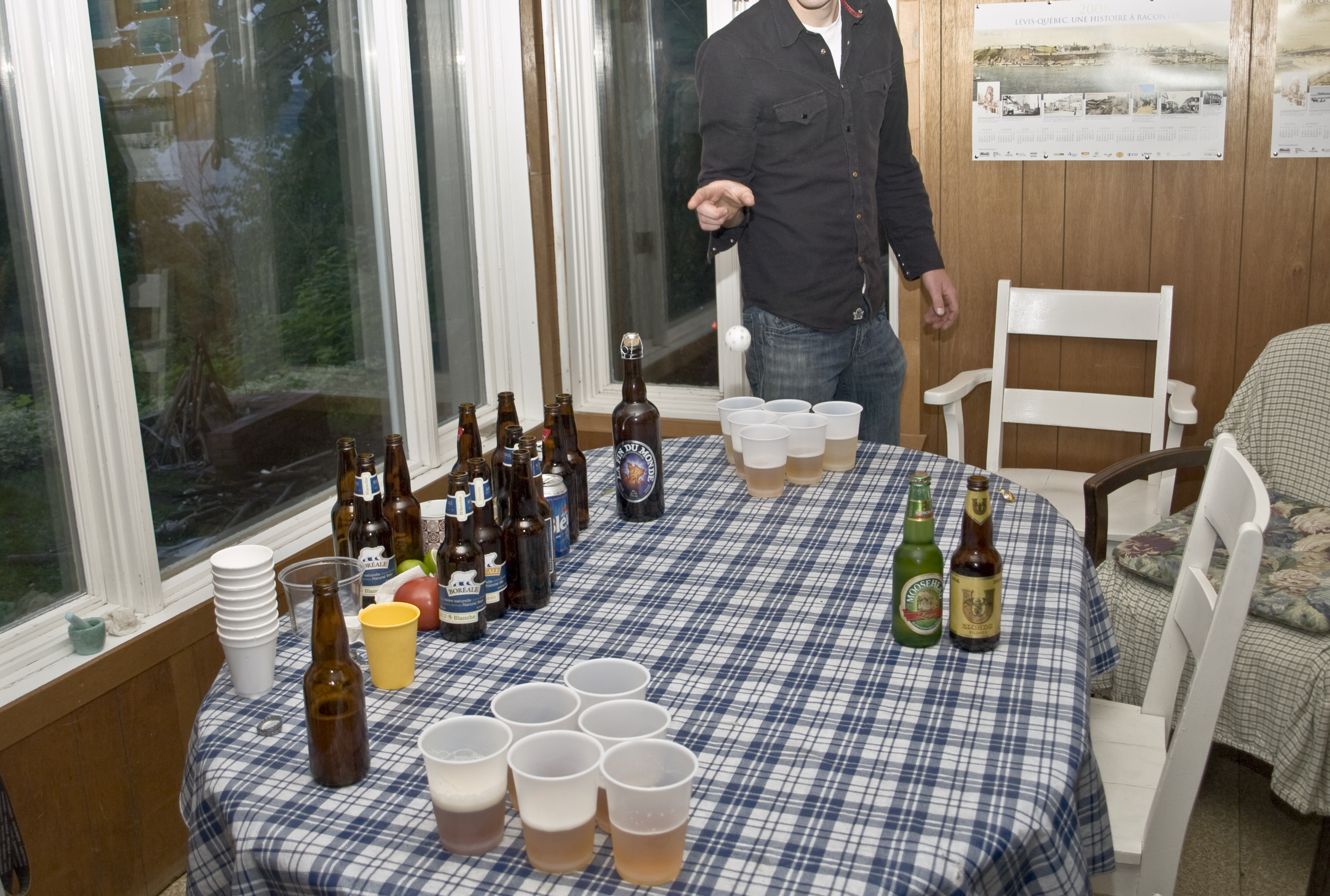 An example of a game of Beer Pong